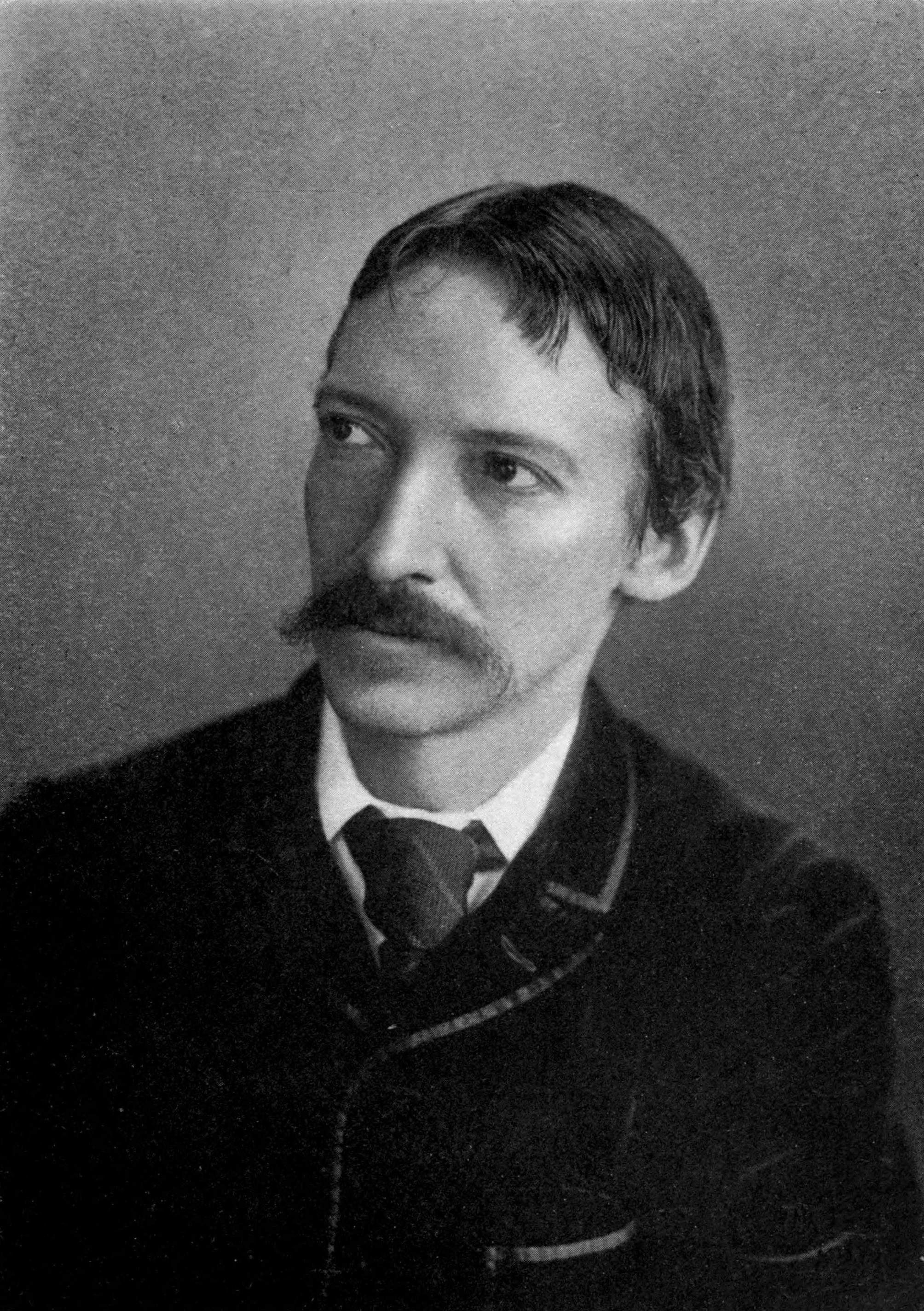 Portrait of Robert Louis Stevenson